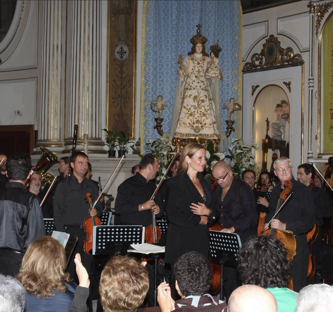 Debra Cheverino in concerts 2010 with Orchestra Sinfonica di Bari